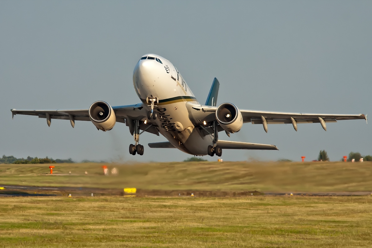 AP-BEB - 7608A2 - Pakistan International Airlines - Airbus A310-308 (587)